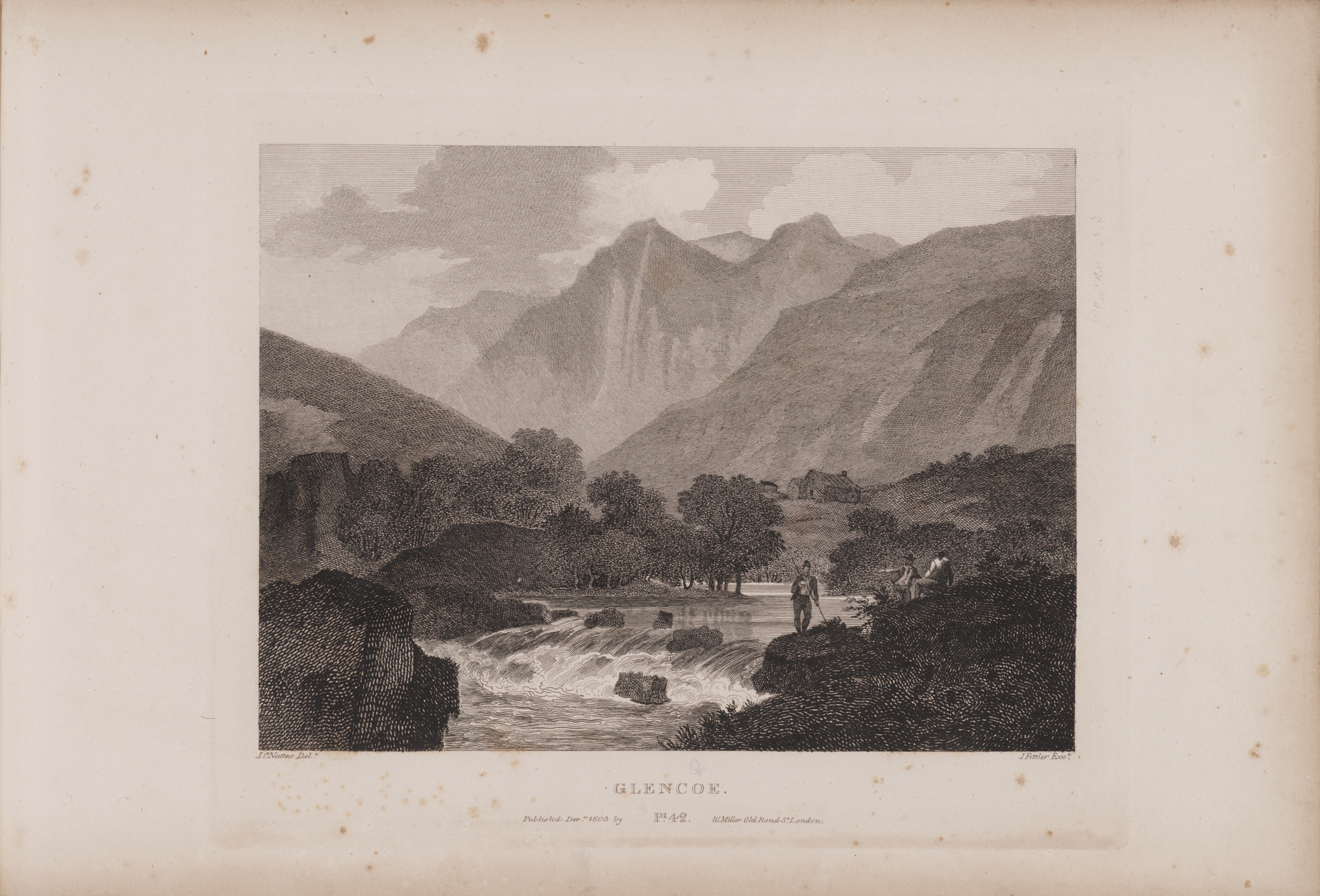 Plate XLII/b - John Claude Nattes made drawings of suitable scenes on the spot; etchings are by James Fittler.